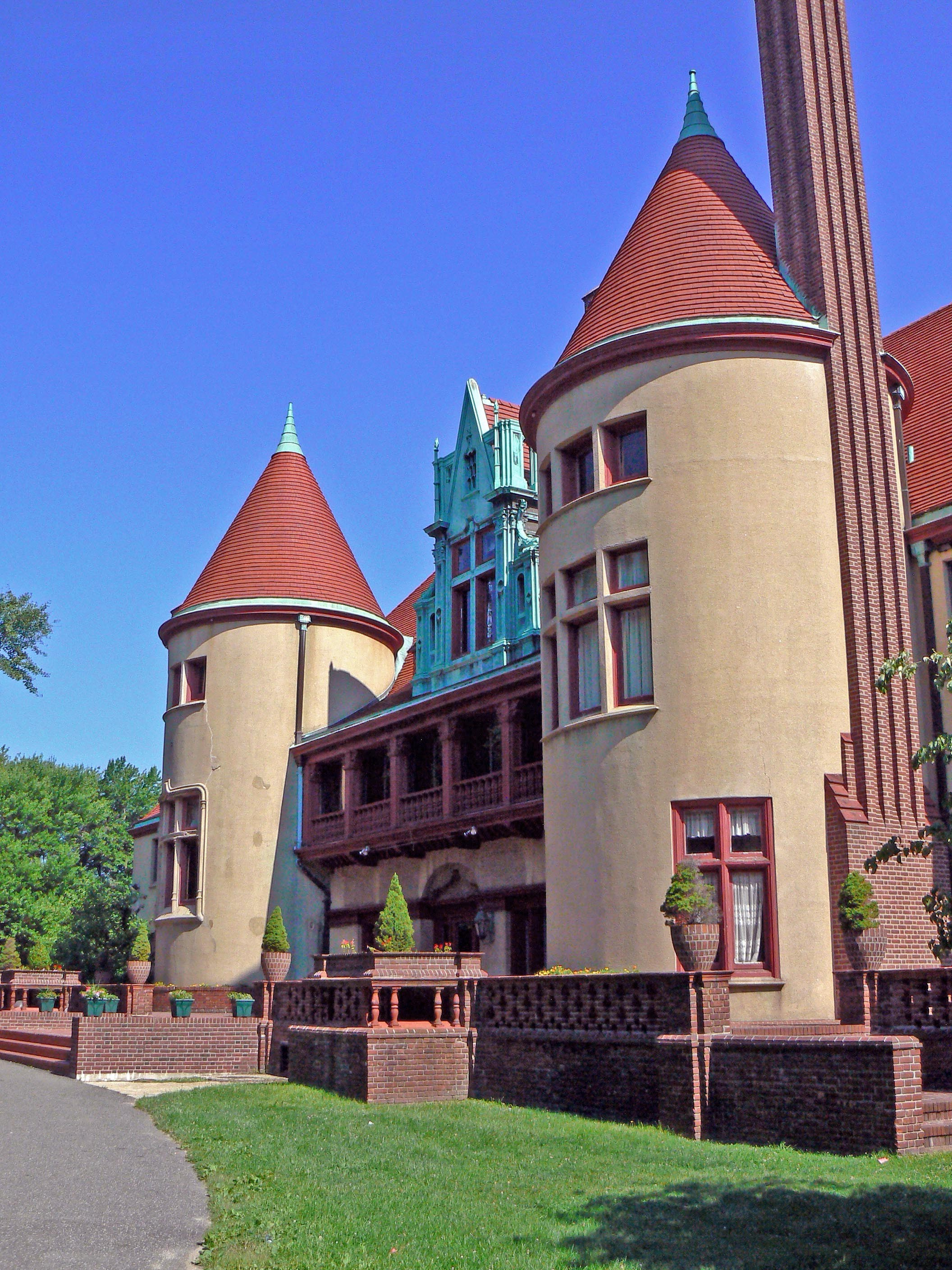 Author: Jonathan Reich